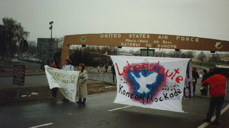 Concert of Lenbens Laute music group in front of the US military Air Force base, at Frankfurt-am-Main, Germany, against Gulf War, on 26 January 1991.